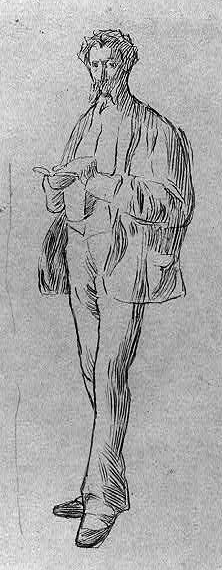 Published in "The Work of Charles Keene" by Joseph Pennell, 1897, p. 17.